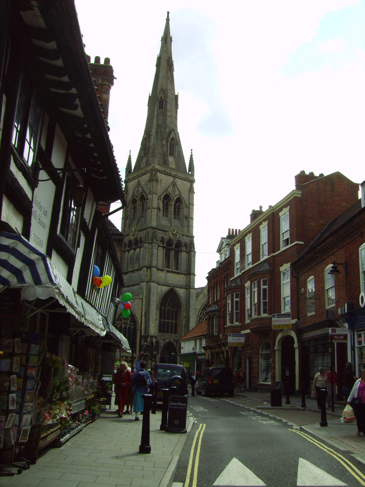 Taken from Kirkgate